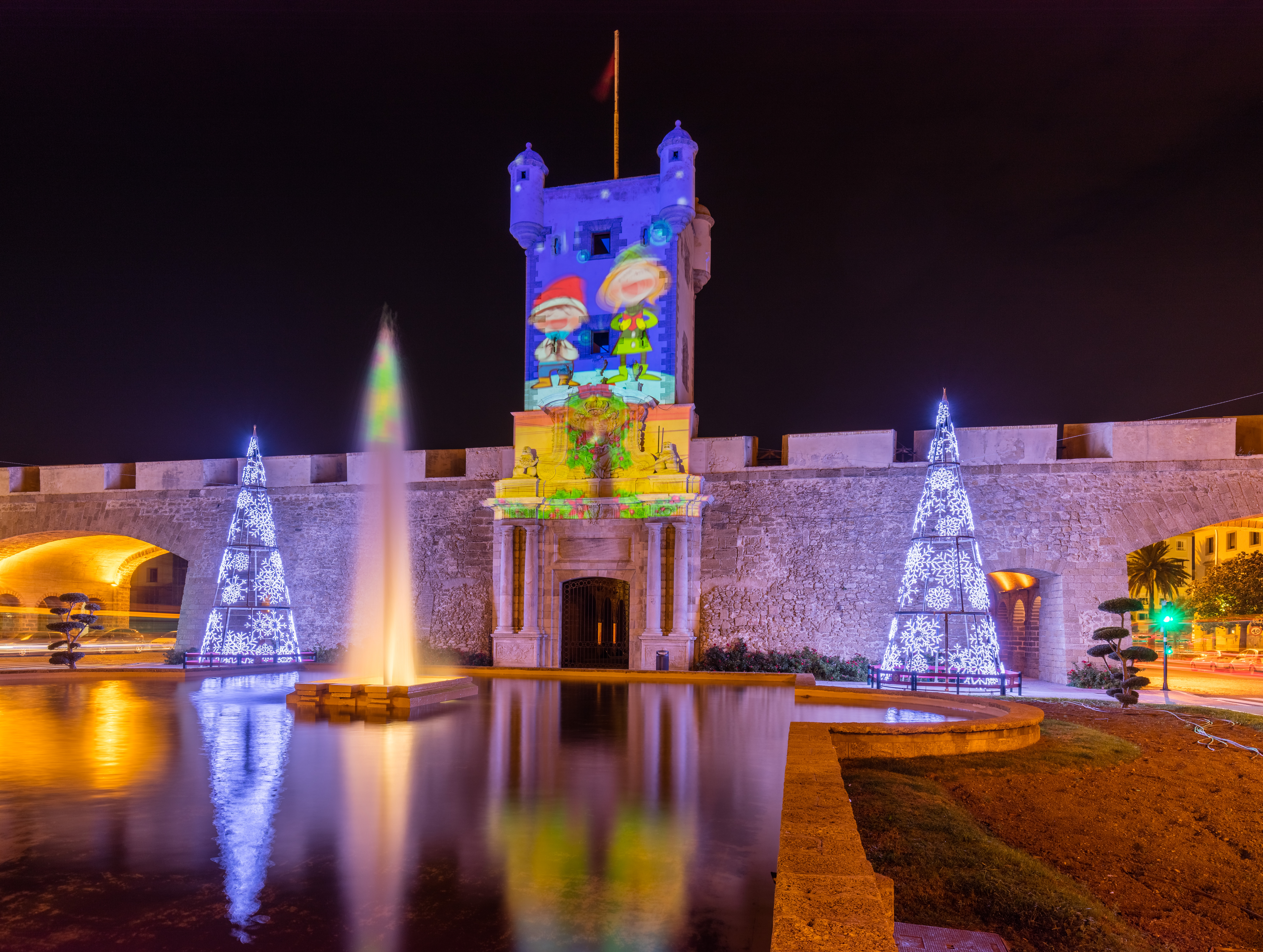 Puerta de Tierra, Cádiz, Spain